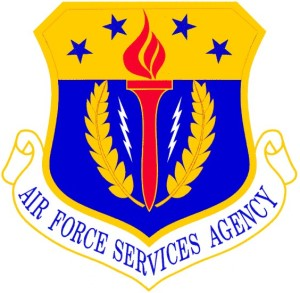 Air Force Services Agency Shield